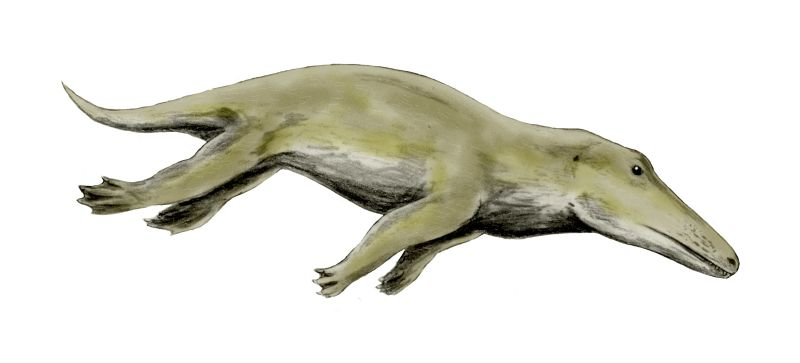 Ambulocetus natans, a primitive whale from the Early Eocene of Pakistan, pencil drawing, digital coloring